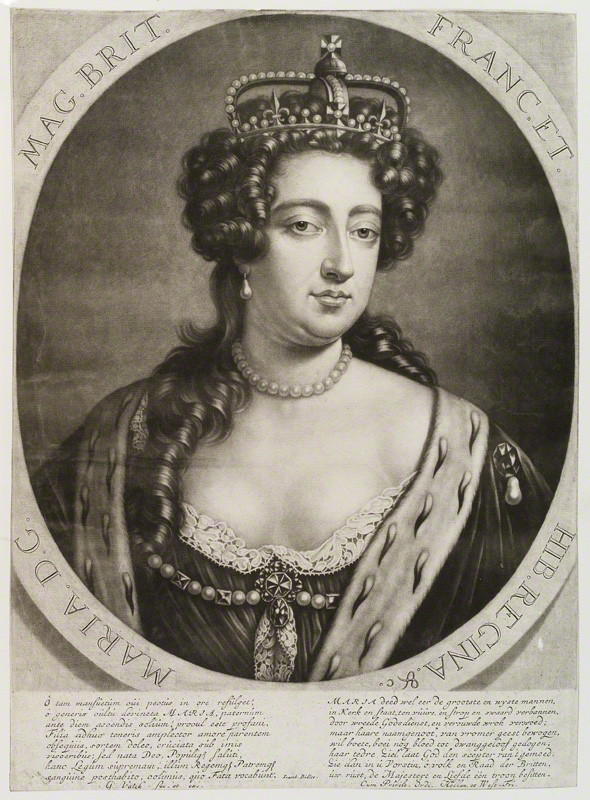 Portrait of Queen Mary II